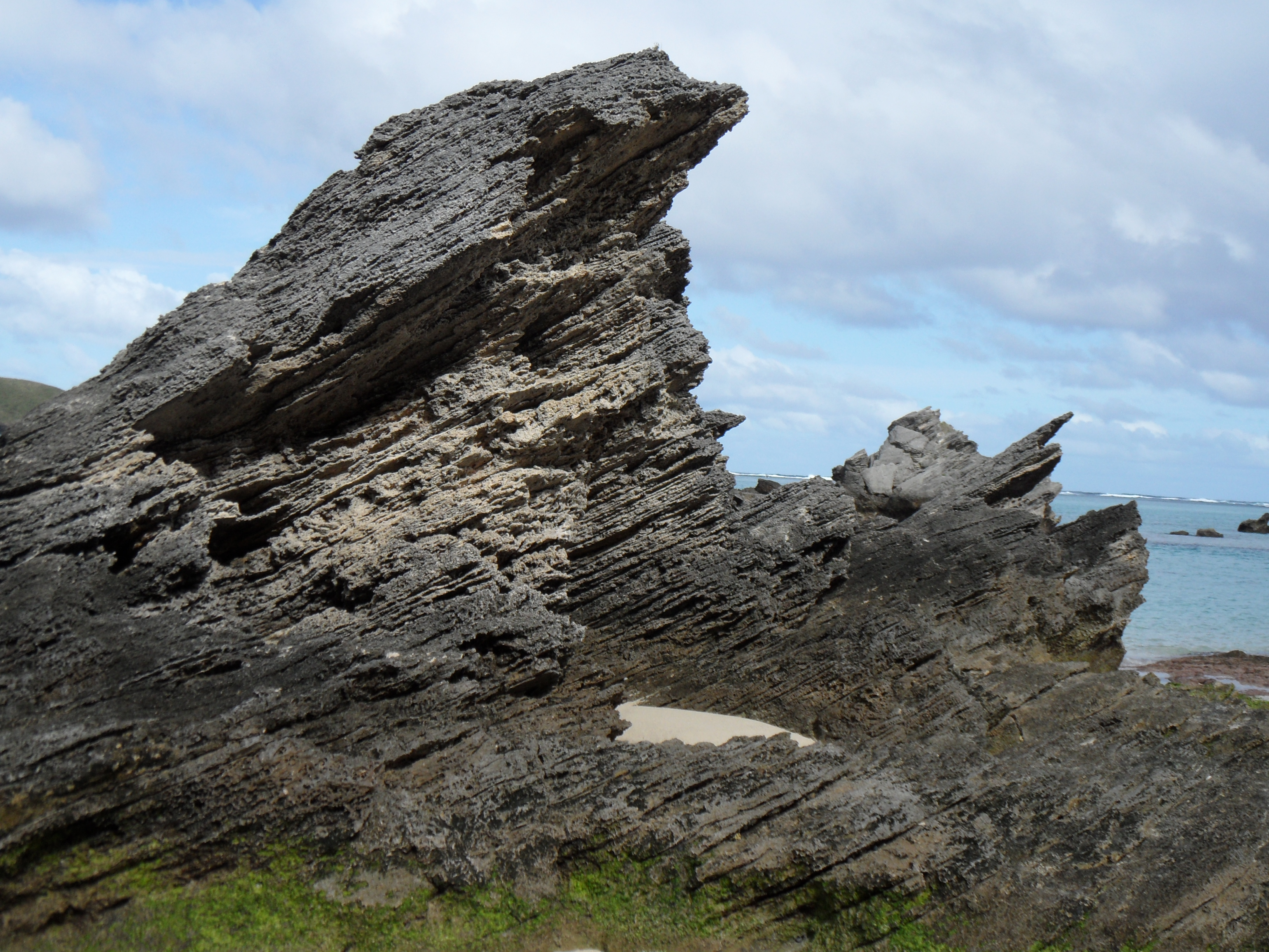 Calcarenite karst, Lagoon Beach, Lord Howe Island